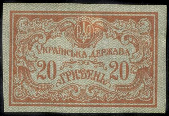 Stamp of the Ukrainian State, 1919